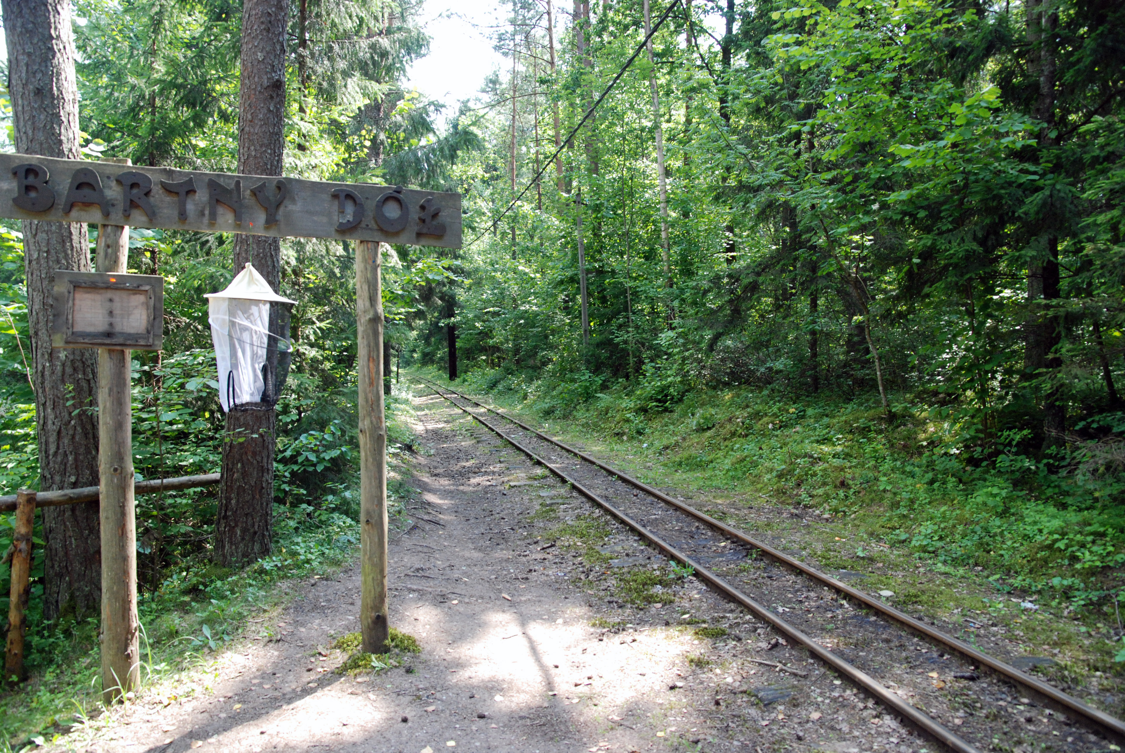 This photo from Podlaskie Voievodeship was taken during Polish Wikiexpedition 2009 set up by Wikimedia Polska Association. The making of this document was supported by Wikimedia Polska. Tory kolejowe wąskotorówki w Wigierskim Parku Narodowym